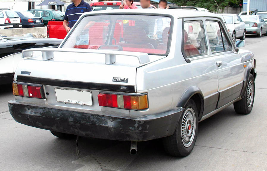 The Oggi is a two-door saloon version of a Fiat 127/147, Argentinian-built. Rear wing is not standard...